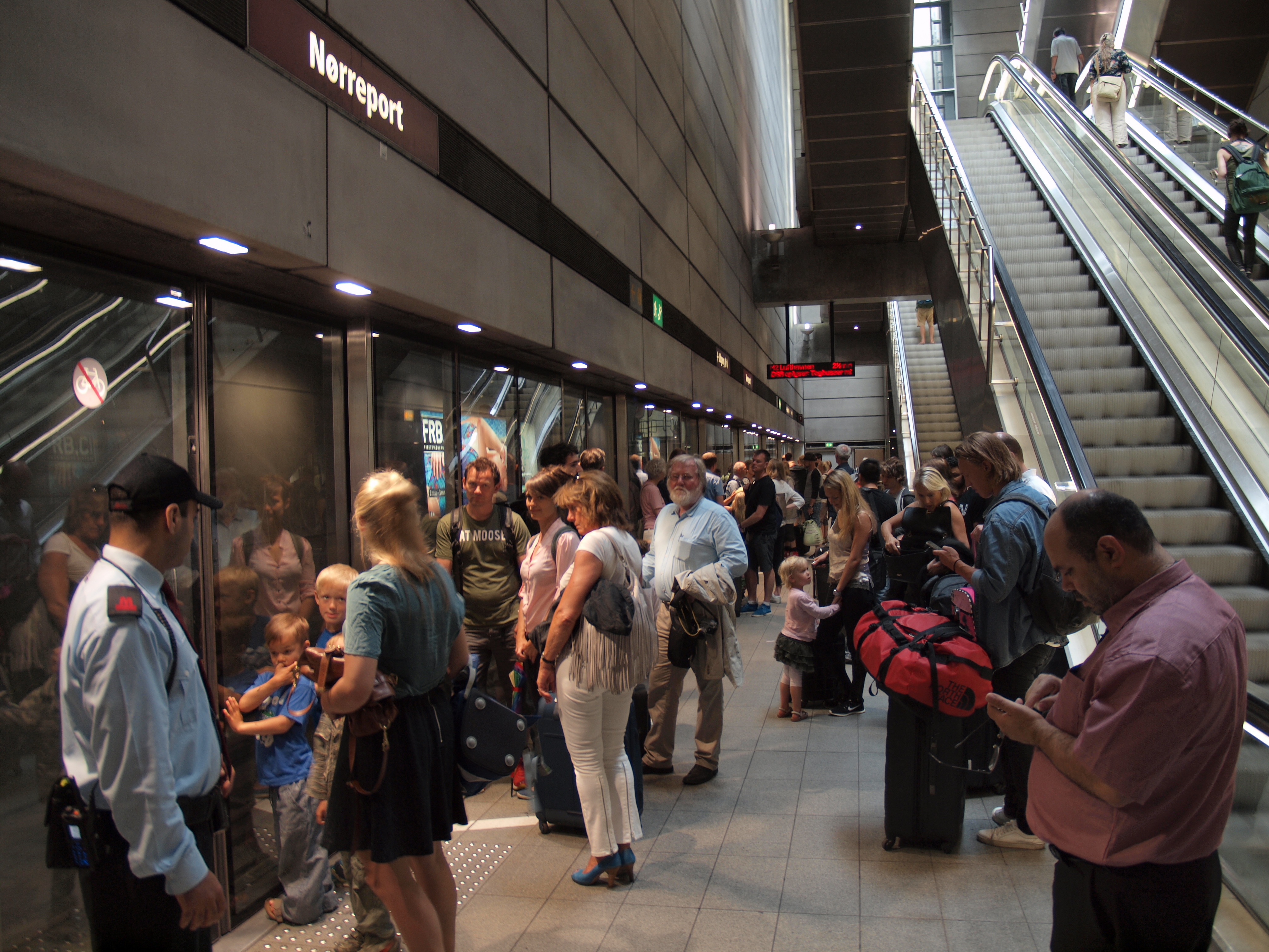 The metro station at Copenhagen Central railway station in Copenhagen, Denmark, fully crowded. Some kind of accident had caused all train traffic between the centre of Copenhagen and southern Sweden, which would otherwise have been served through the Öresund bridge/tunnel, to be completely broken. The only option available was to take a metro train to Copenhagen Kastrup Airport, where a local train was available to Malmö in southern Sweden. Because of this, the Copenhagen metro between the Central railway station and Kastrup Airport was exceptionally available free of charge.